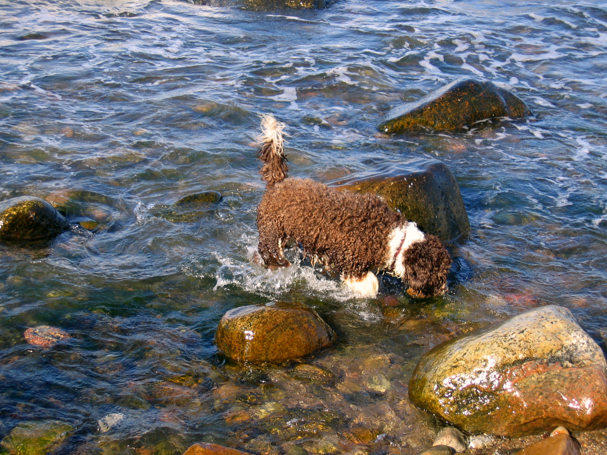 a spanish waterdog (Perro de Agua Español) in water.